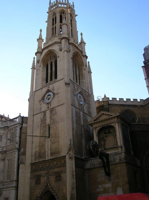 St Dunstan in the West, Fleet Street EC4